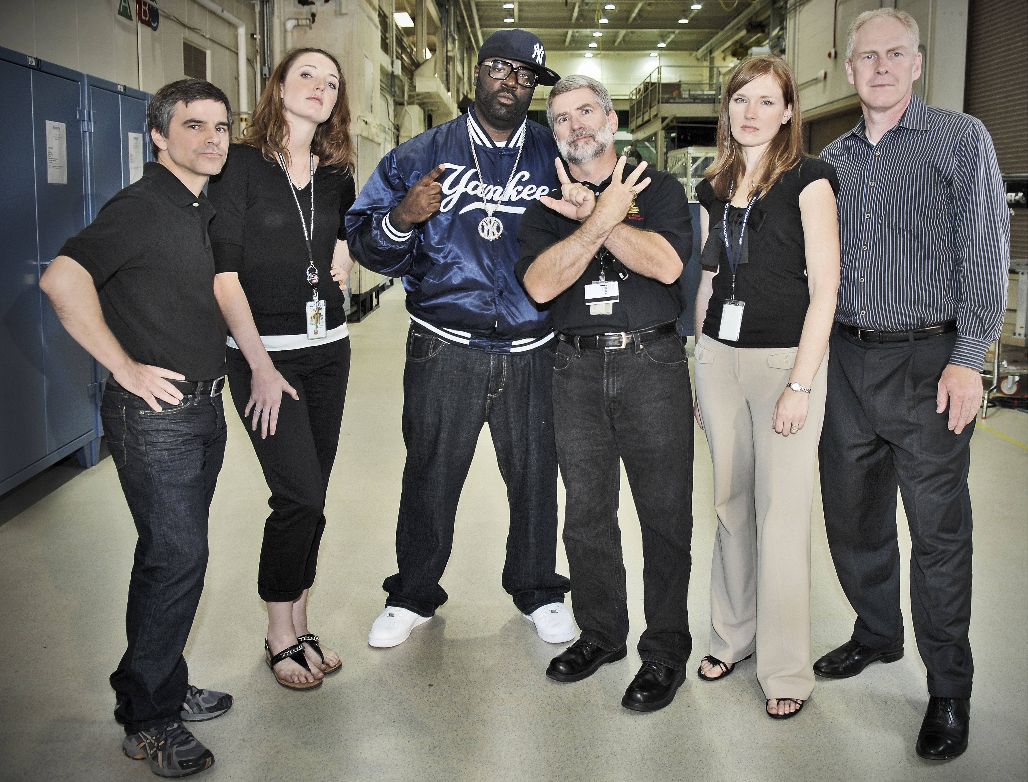 Fans of 'Late Night with Jimmy Fallon' know the setup: A guy in a Yankees jacket shows off Hubble images and shouts to the audience that, 'Hubble gotchu!' Monday night's episode showcased footage shot right here at Goddard Space Flight Center. Left to Right: Phil Driggers, Katie Lilly, Milky J “Hubble Gotchu”, Mike Menzel, Amber Straughn, Ray Lundquist. Read more about Milky J's visit here: NASA Goddard Space Flight Center is home to the nation's largest organization of combined scientists, engineers and technologists that build spacecraft, instruments and new technology to study the Earth, the sun, our solar system, and the universe. Follow us on Twitter Join us on Facebook Credit: NASA/Goddard Space Flight Center/Chris Gun